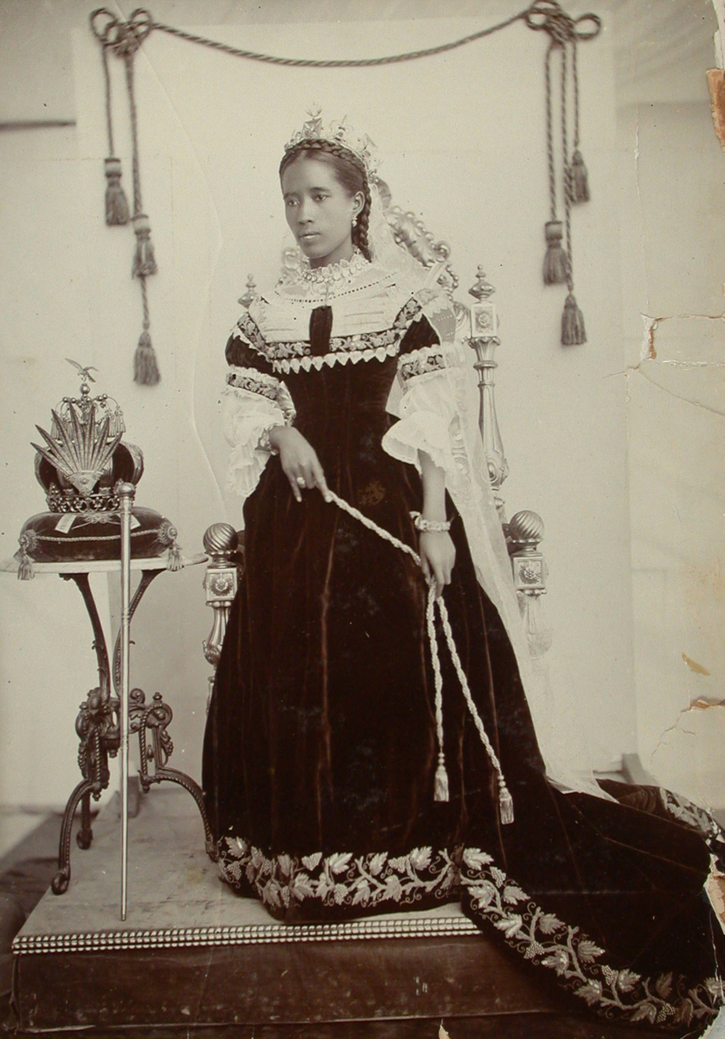 Queen Ranavalona III standing beside a throne table which her crown is lying on. She is wearing a beautiful royal gown which has some embroidery on it. Her hair is braided.